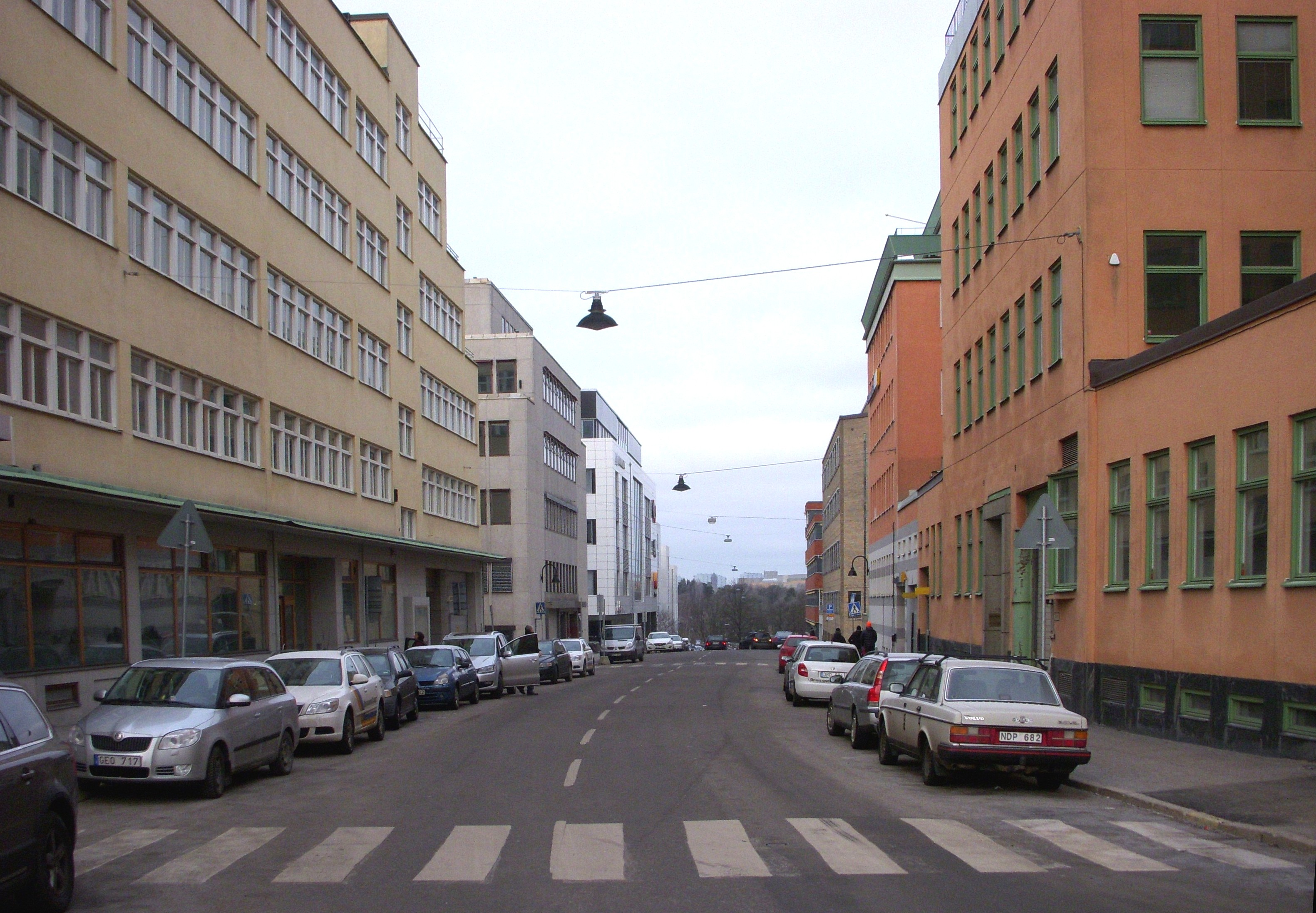 Warvfinges väg mot norr, västra Kungsholmen